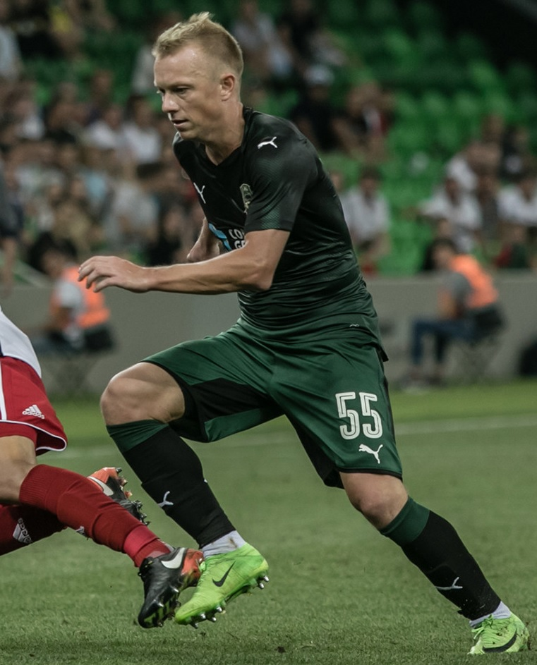 Renat Yanbayev with FC Krasnodar in a game against FC Amkar Perm.